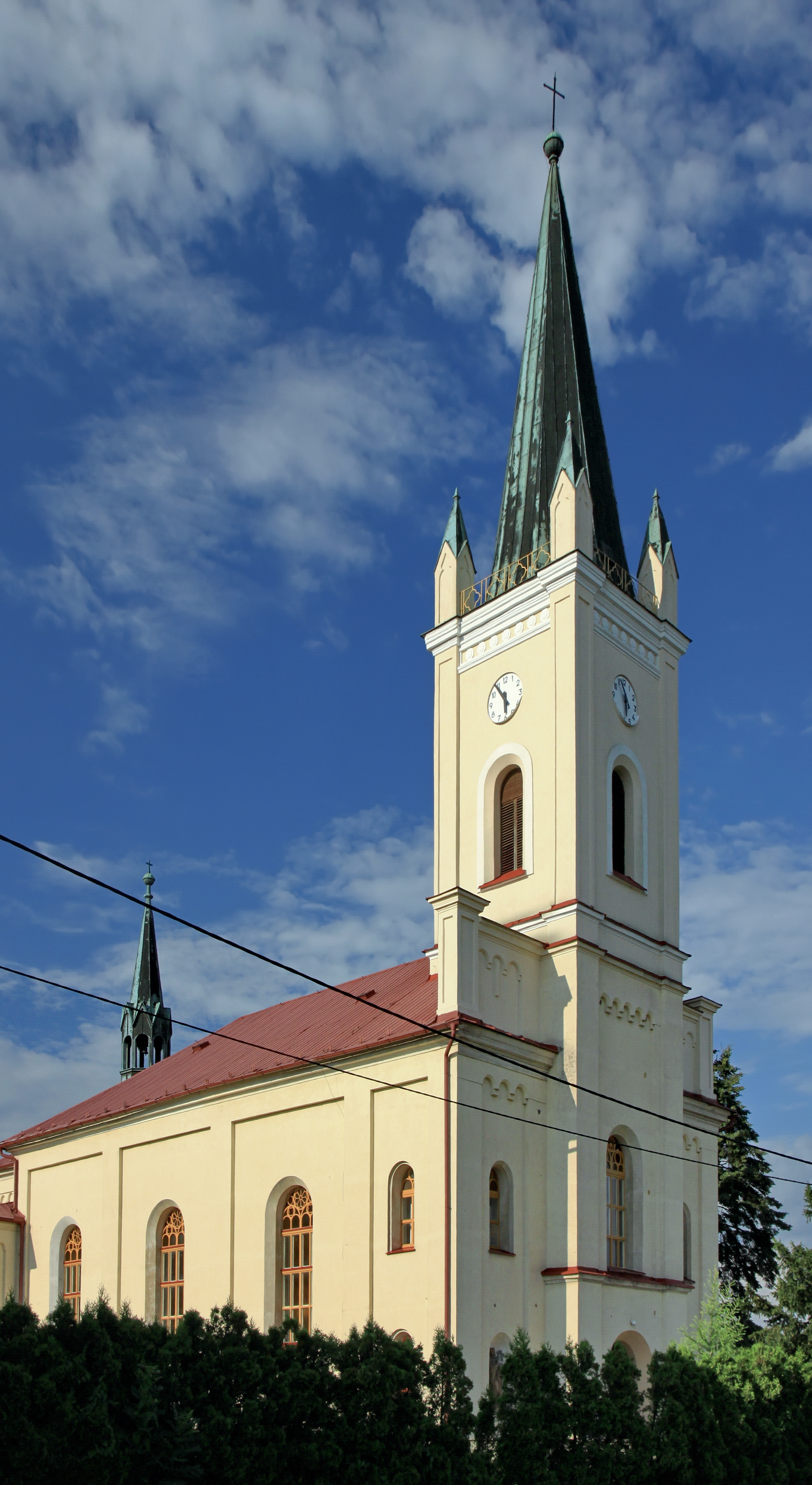 Church of Saint Mary Magdalene, Dětmarovice. Moravian-Silesian Region, Czech Republic.